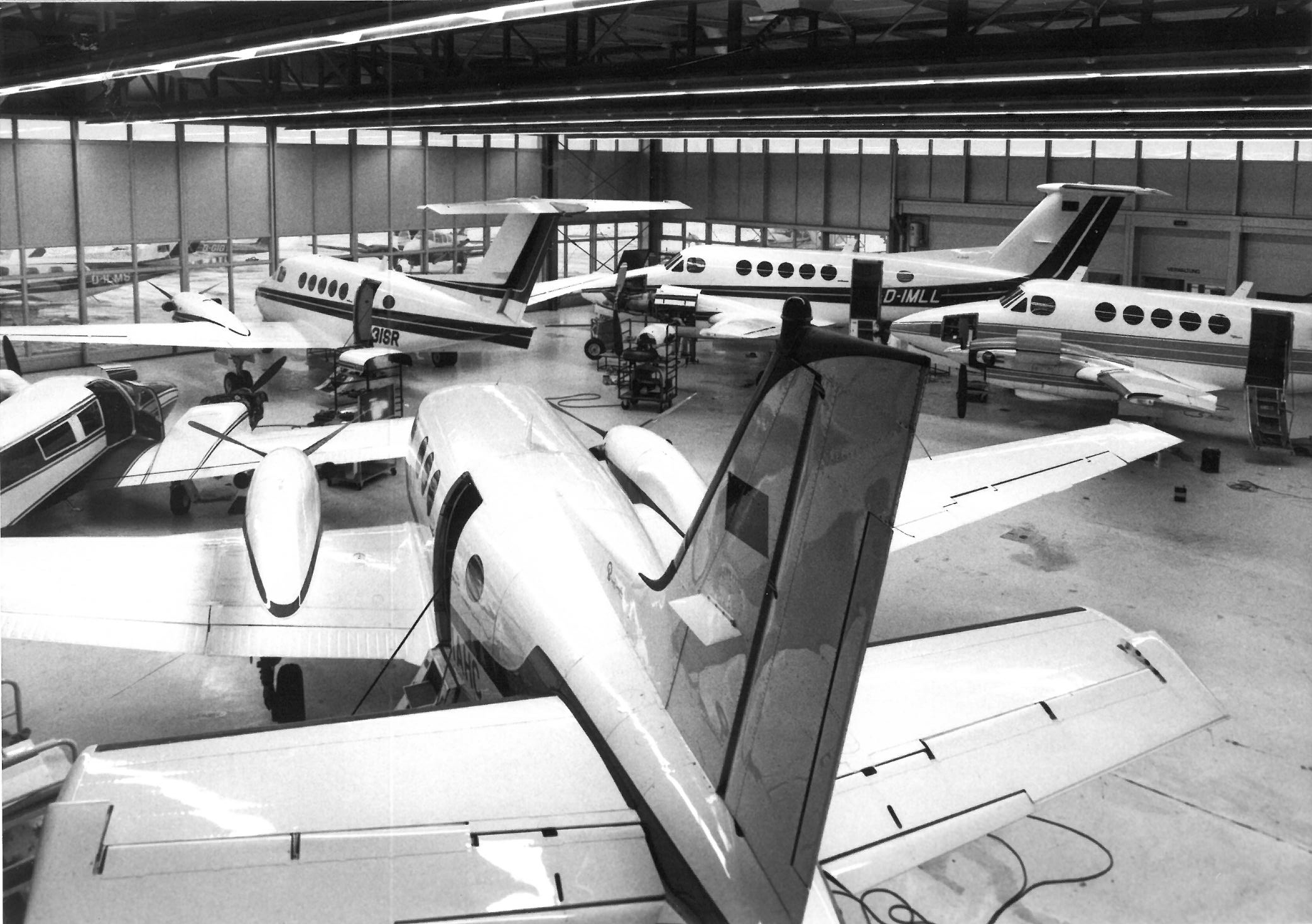 Inner view of the Beechcraft Vertrieb & Service aircraft maintenance hangar in 1977, b&w image